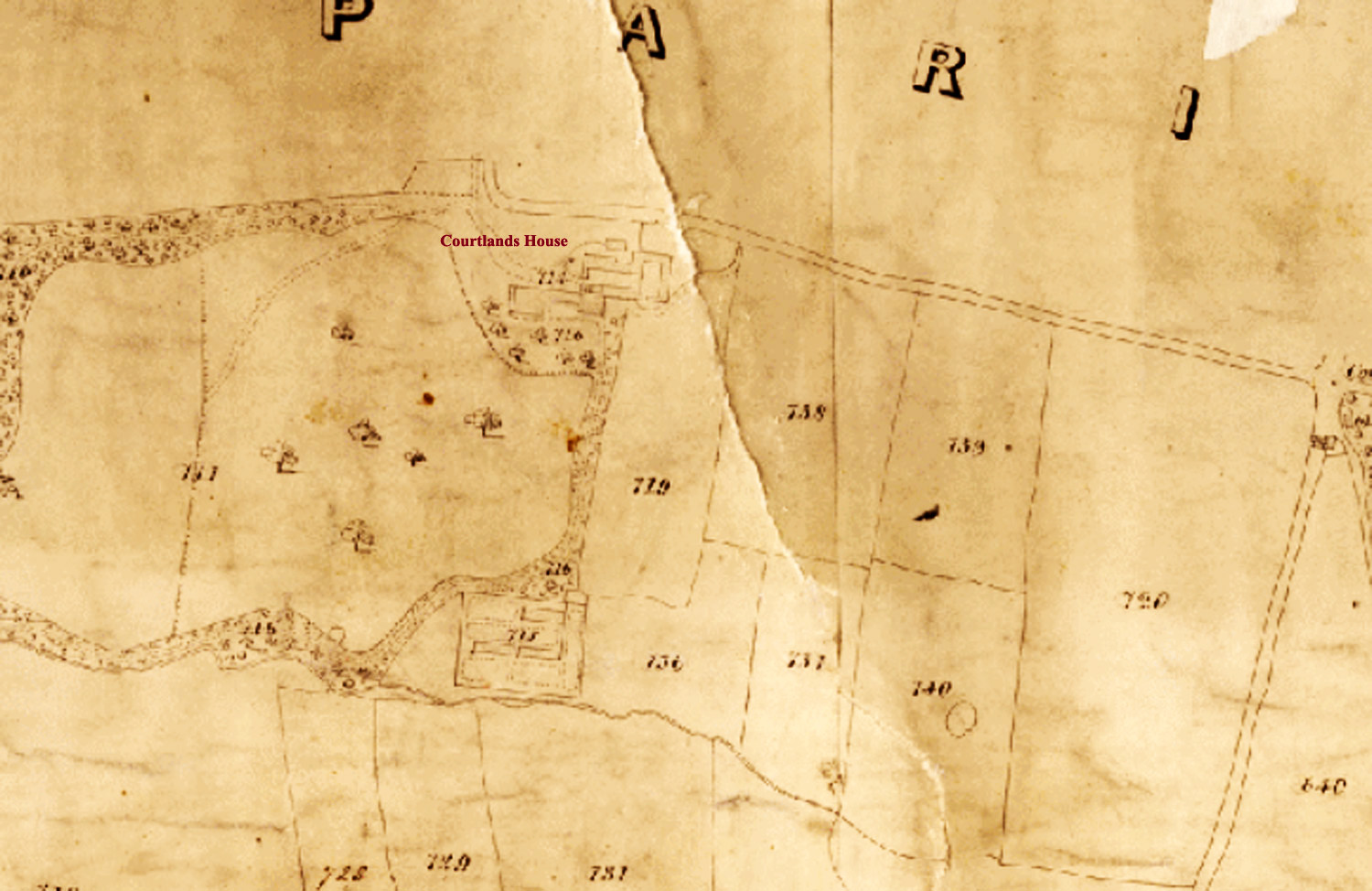 Tithe map of Courtlands House now Lympstone Manor circa 1840